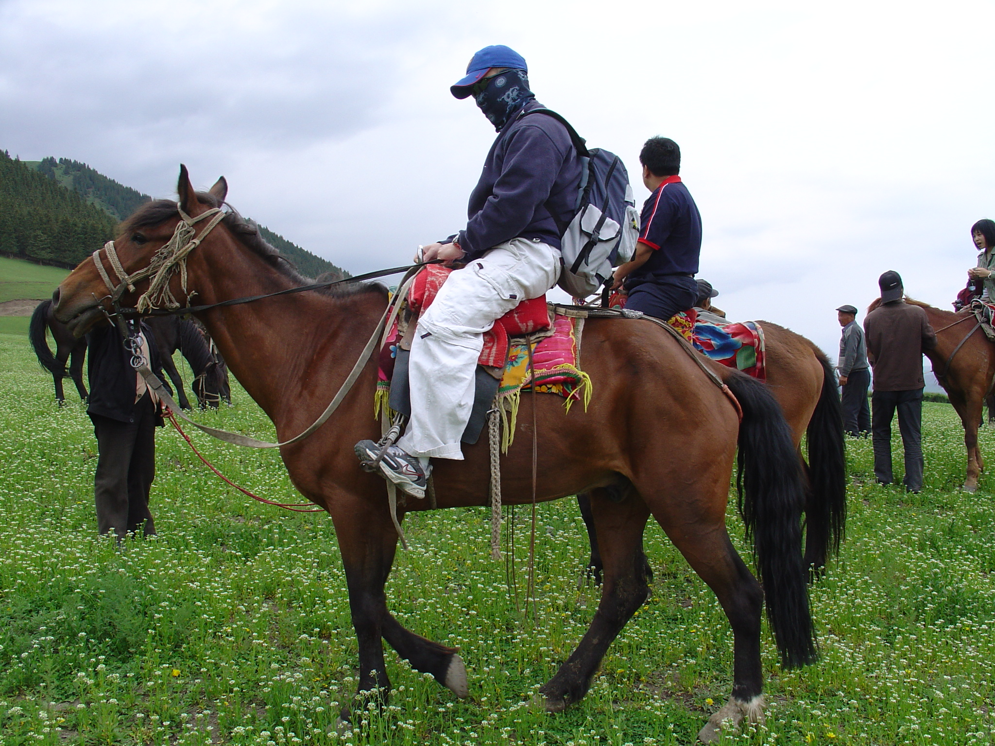 Just me riding a horse on the path of the "Silk Road"